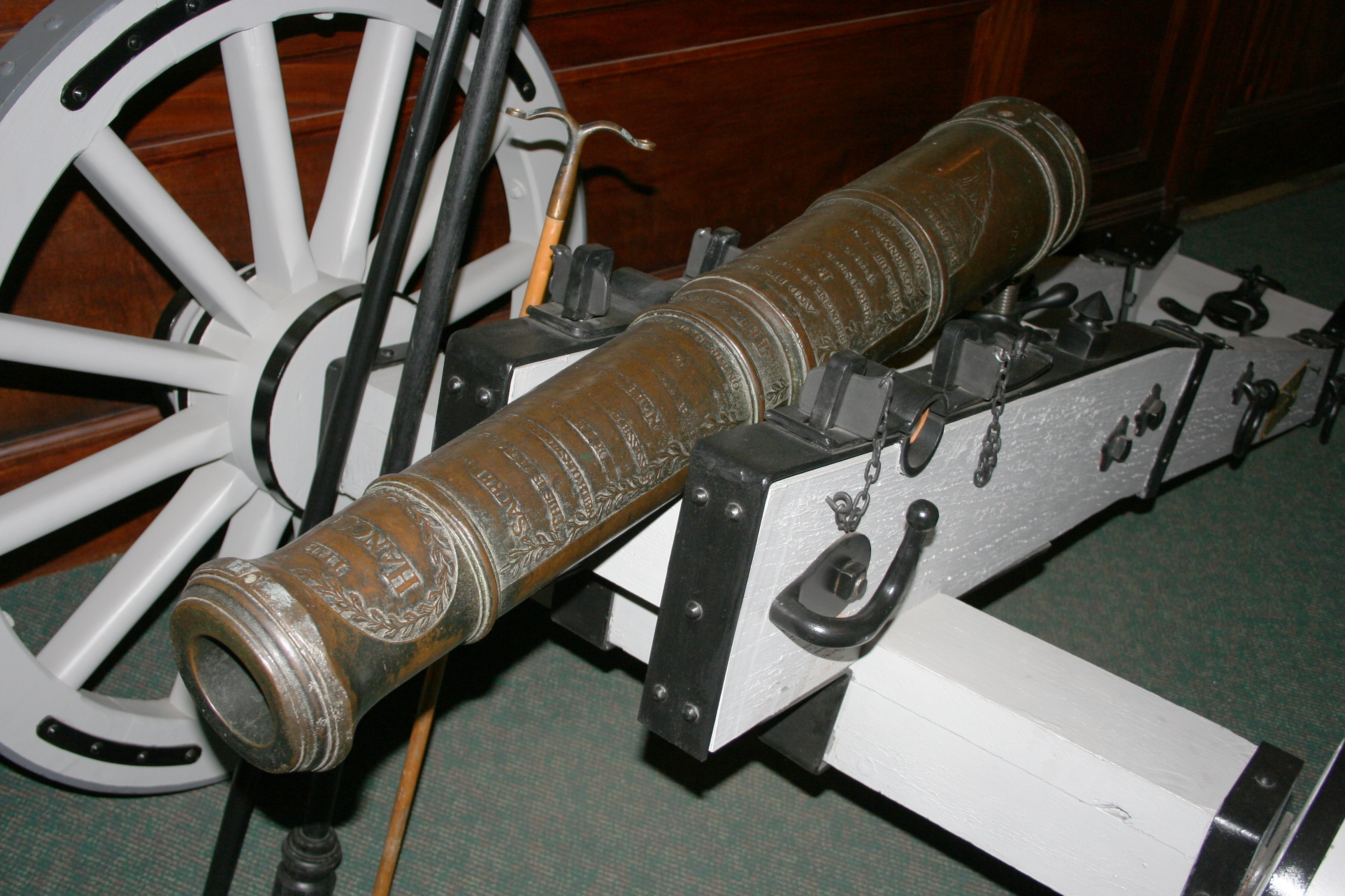 The Hancock Cannon, one of four brass cannon stolen by American colonists from the British army in Boston, 1774. At the Visitor Center for the Old North Bridge, Concord, Massachusetts. The cannon was the subject of a segment of History Detectives [1].